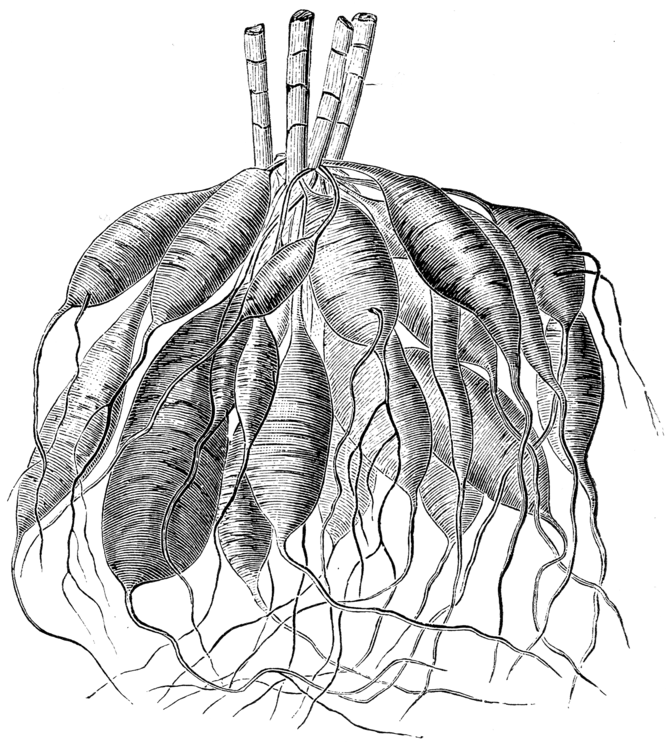 root tubers of Dahlia variabilis